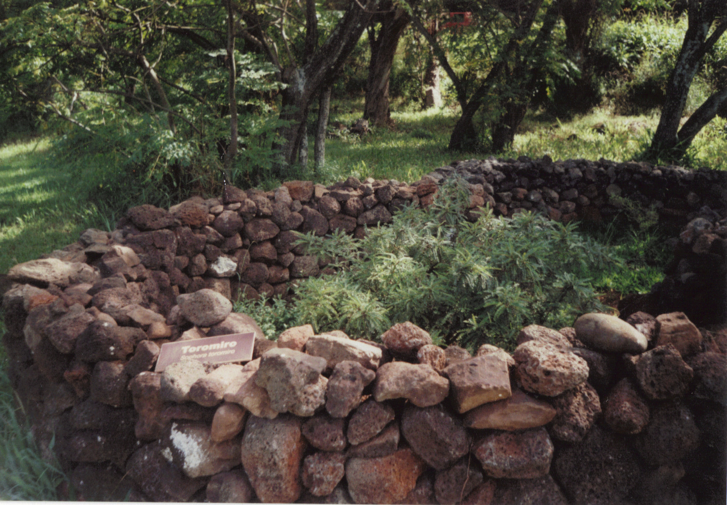 Rapanui, Toromiro tree